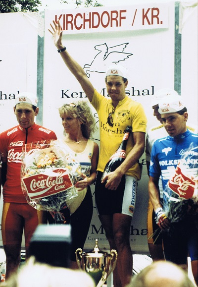 Thanks to his Australian Olympic team-mates, Rob Crowe won the overall G.C. of the Ken Marshal International Amateur Tour of Austria just before competing in the Stuttgart World Titles in 1991.